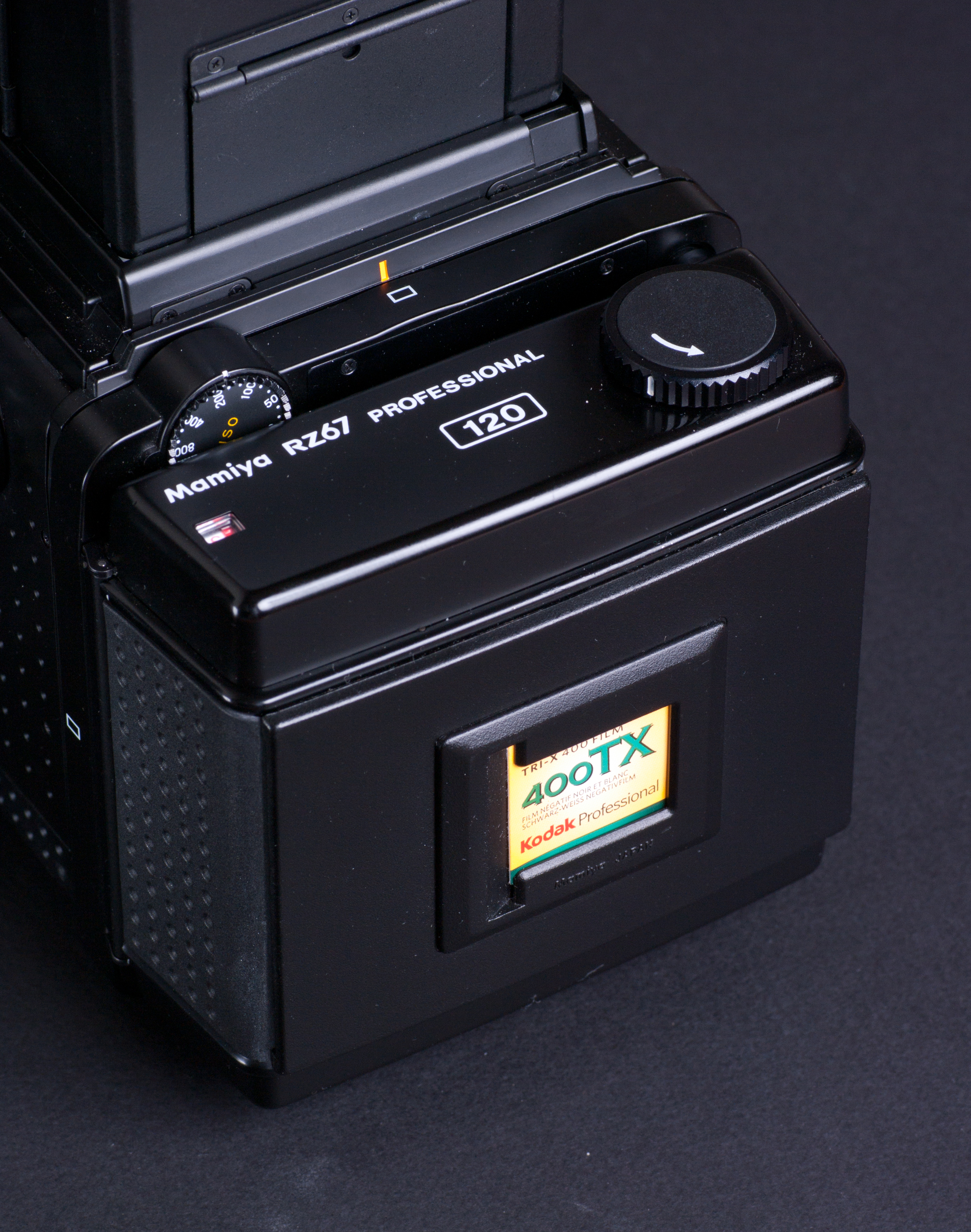 Mamiya RZ67 Professional camera, film back 6x7 type 120